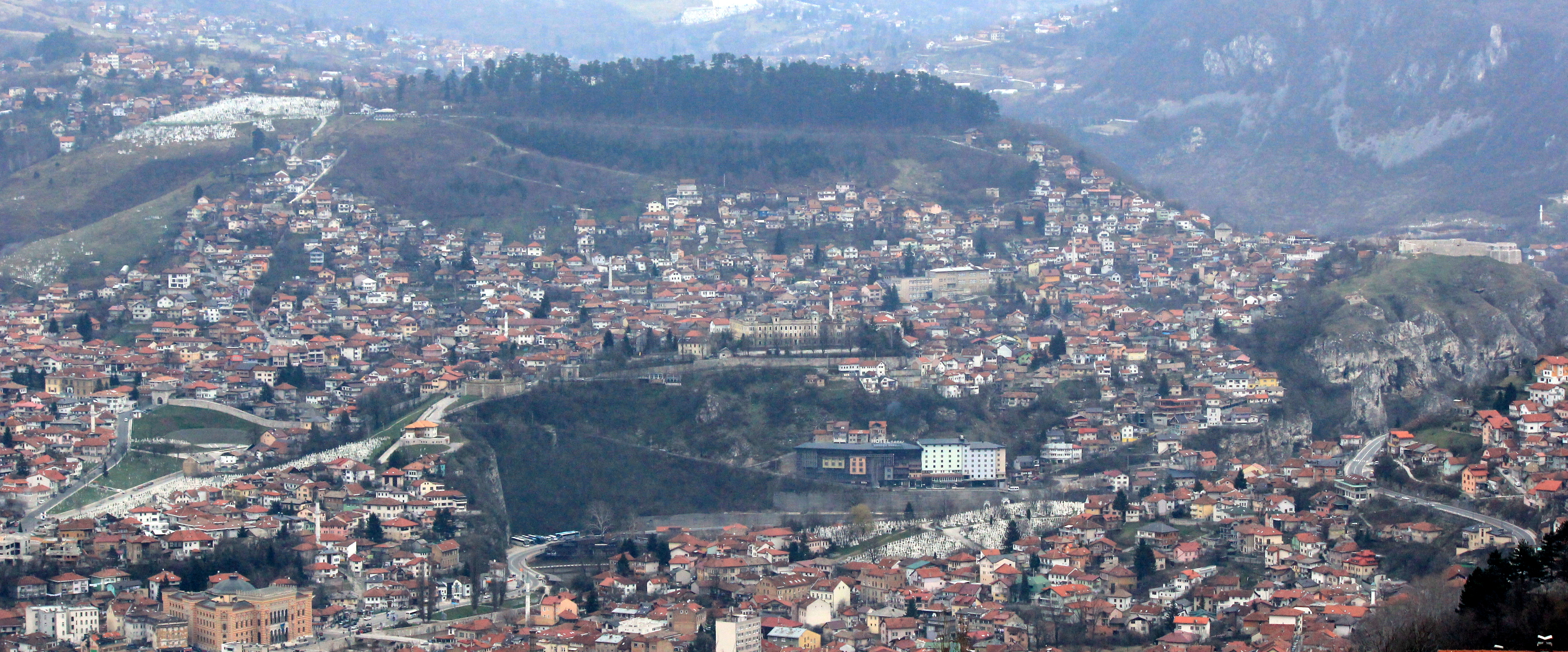 View on Sarajevo's neighbourhood Vratnik.